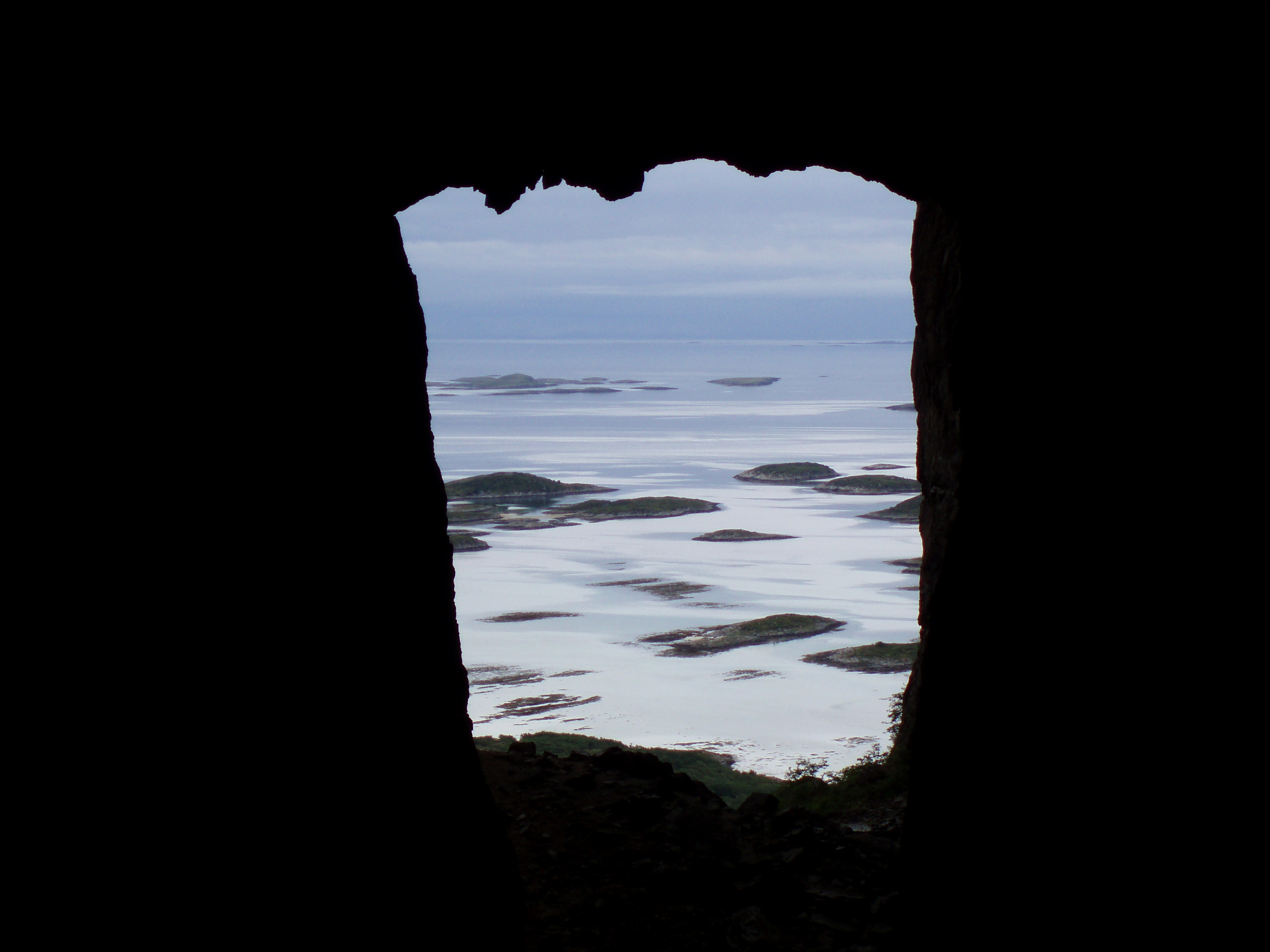 The hole in the mountain Torghatten, in the municipality of Brønnøy. Norway.